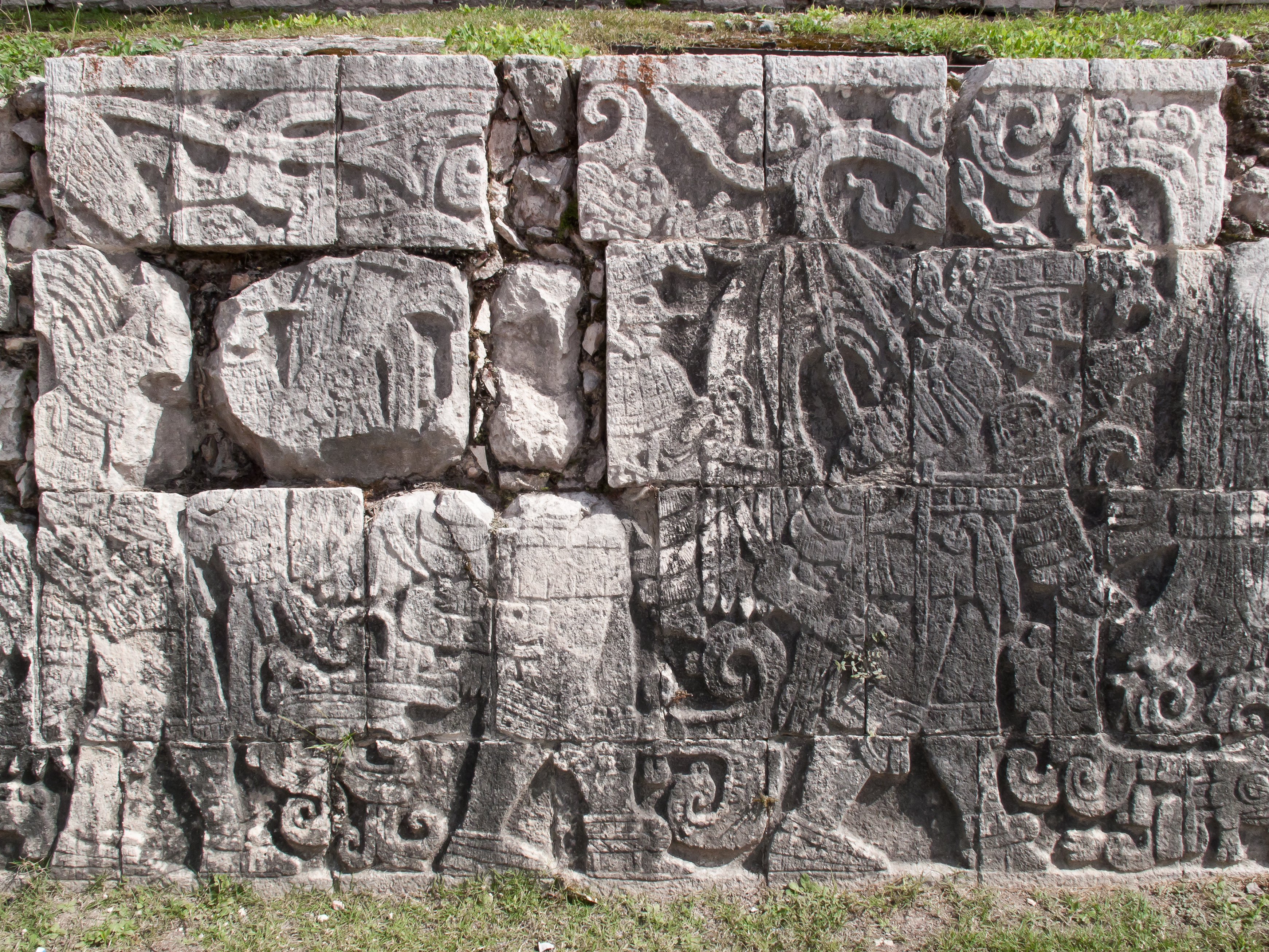 Relief in Chichén Itzá